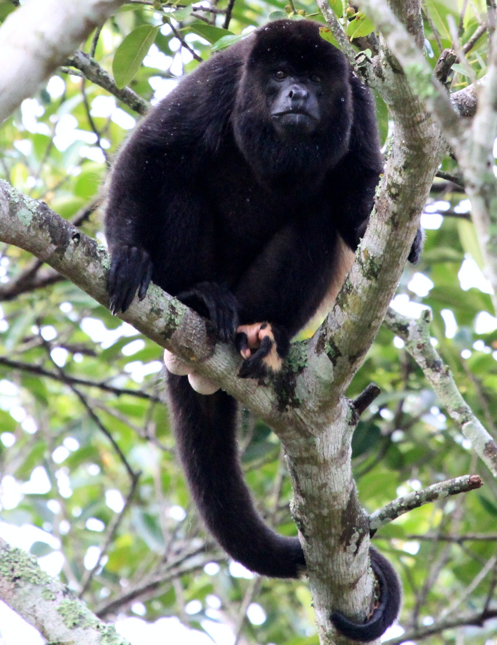 Saraguato en el istmo de Tehuantepec